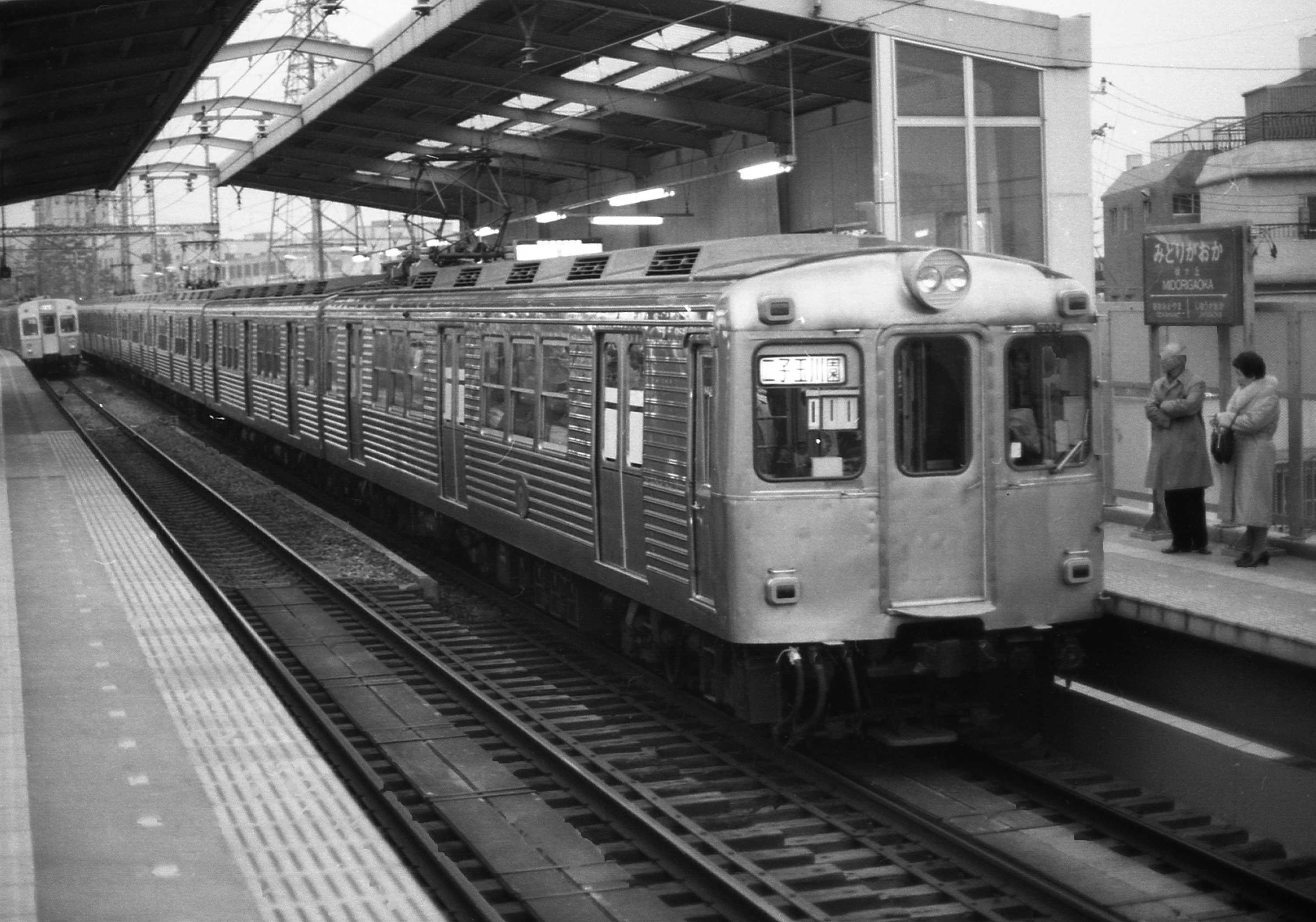 A Tokyu 6000 train approaching to Midorigaoka station